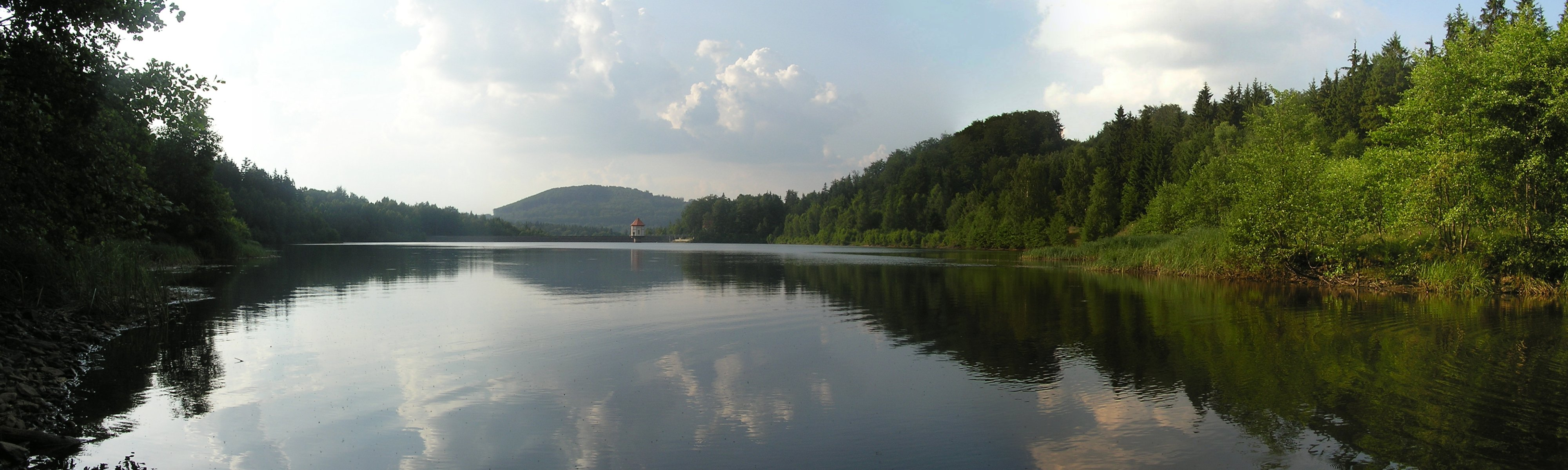 Panoramic view of Chřibská Reservoir, Czech Republic.